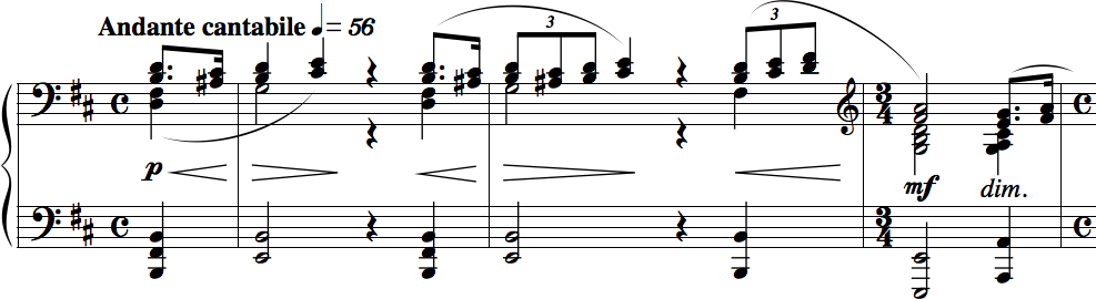 A section in Six Moments Musicaux, No. 3. The piece, composed by Sergei Rachmaninoff in 1896 was published before 1923, and thus is in the public domain.